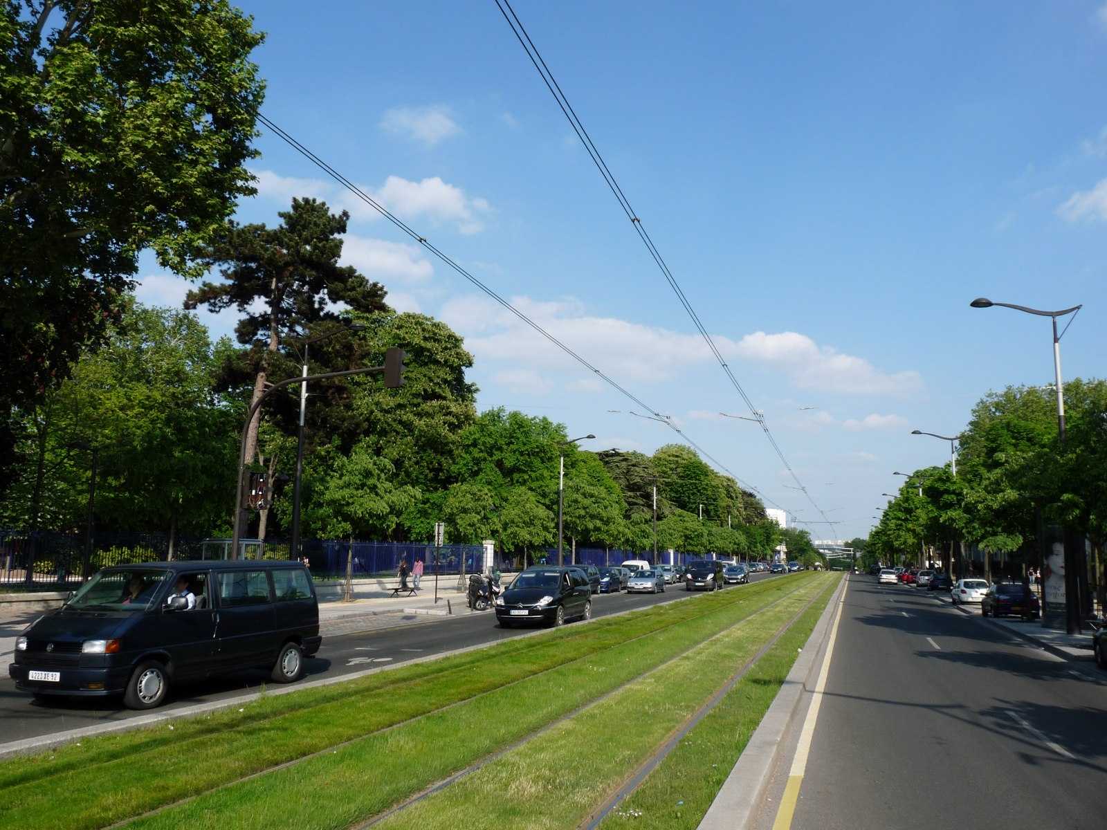 Boulevard Jourdan in Paris, and the southern border of the Parc Montsouris